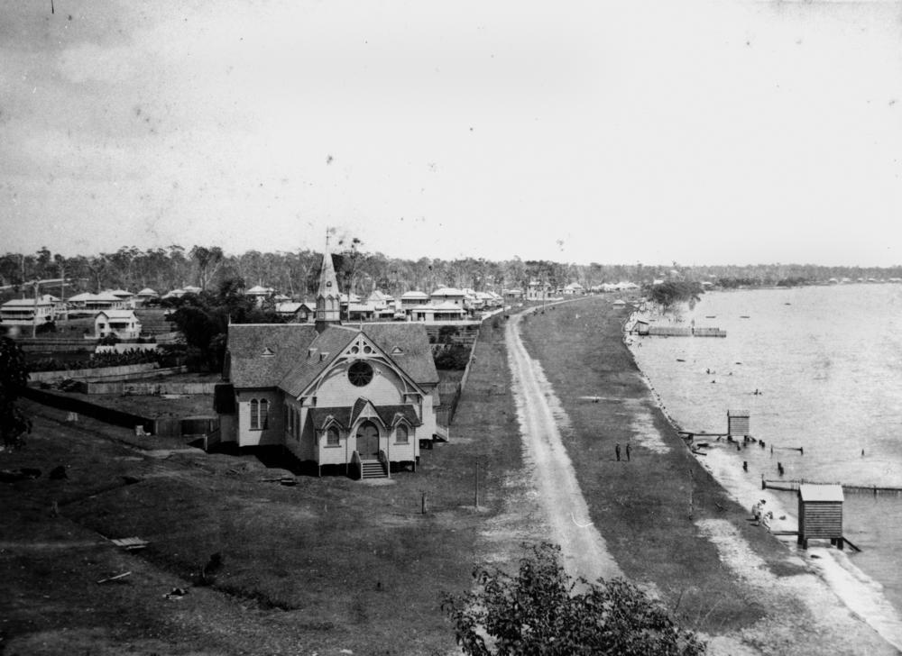 Sandgate Baptist Church, ca. 1890 The former Sandgate Baptist Church was opened on Christmas day 1887 replacing a small chapel built in 1872. A church member, George Phillips, donated a triangular piece of land near the sea front on the corner of Flinders Parade and Cliff Street and the church was built to the design of prominent Brisbane architect, Richard Gailey. A local builder, William Street, built the new church with the spires being erected by steeplejack, Mr Collins. It originally had a shingled roof and was lit by kerosene lamps. This image is an aerial view of the church showing the surrounding houses and the sea front with wooden bathing sheds.